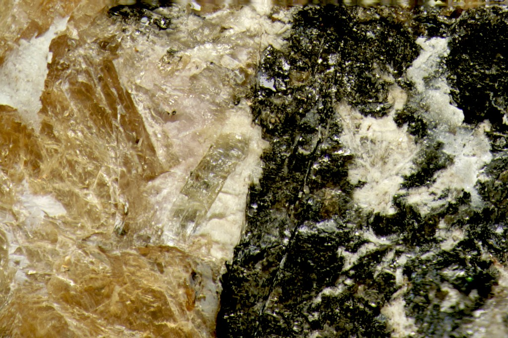 Belovite-(Ce), Umbozerite, Sérandite, Shkatulkaite (FOV 7.1 x 4.7 mm) Locality: Shkatulka pegmatite, Umbozero mine (Umbozerskii mine), Alluaiv Mt, Lovozero Massif, Kola Peninsula, Murmanskaja Oblast', Northern Region, Russia Description: Orange sérandite (on the left), pink ussingite (top), greenish belovite-(Ce) (center). I see deep REE absorption lines. It’s a bit hard to tell exactly where they are coming from, but I’m fairly sure it is from the greenish xl. Per Pavel's inspection of the photo, he agrees that it is belovite. The xl is about 1¾ mm long. The black stuff (on the right) has a conchoidal fracture and looks a bit like steenstruoine-(Ce, but is is altered umbozerite (as confirmed by Pavel from inspection of the photo.) The white stuff on the umbozerite is probably shkatulkalite. (Pavel did not comment on this.)